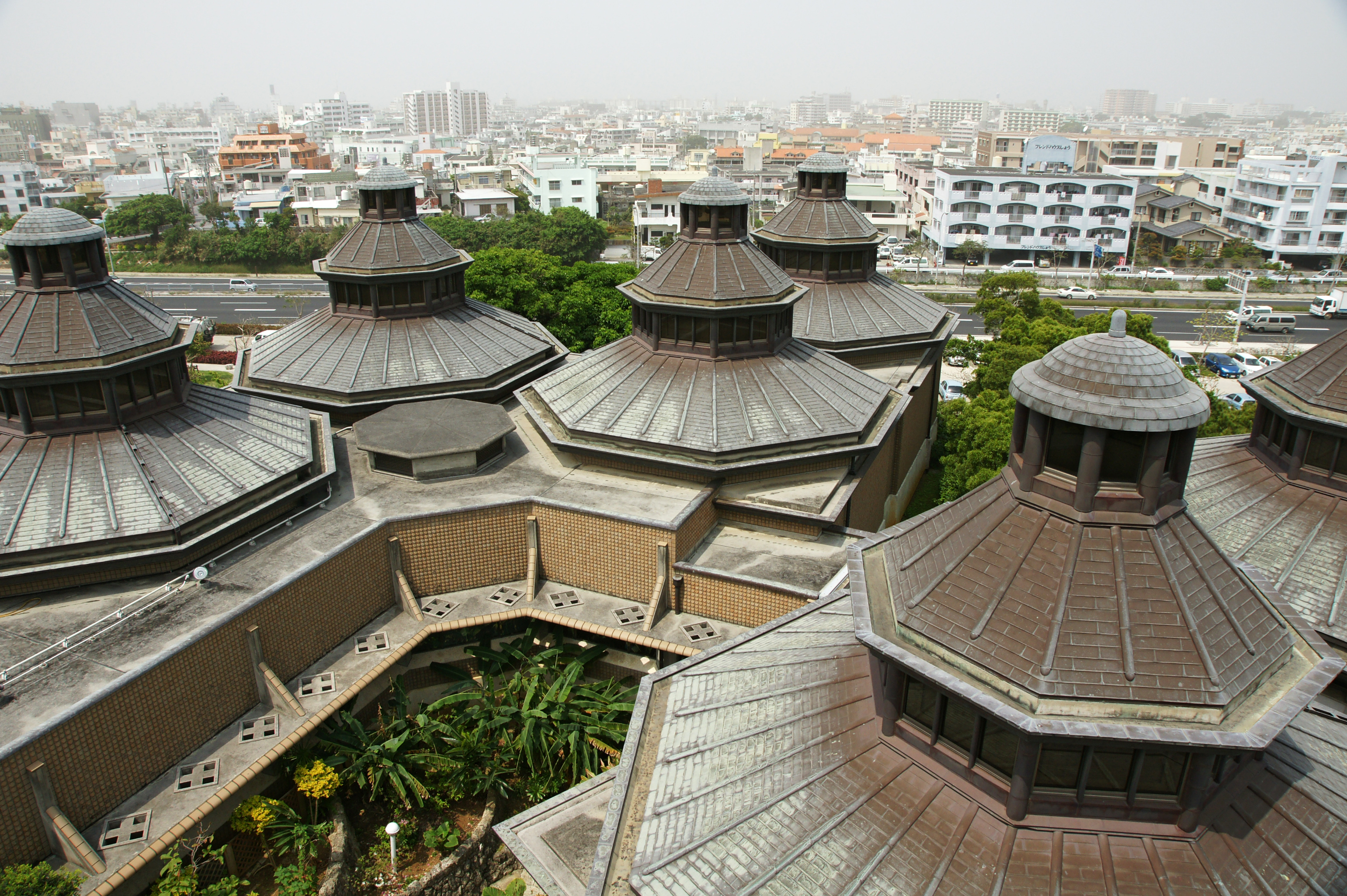 Urasoe Art Museum in Urasoe, Okinawa prefecture, Japan.